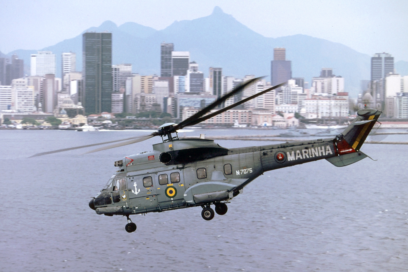 Rio de Janeiro, September 2002. AS532M1 Cougar N-7075 is passing the bridge of the Brazilian aircraft carrier NAe São Paulo and heading for its home base, São Pedro d'Aldeia. The ship was arriving in the city after an week long exercise.